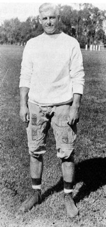 U.S. Army photo. US Army Corps of Engineers Office of History